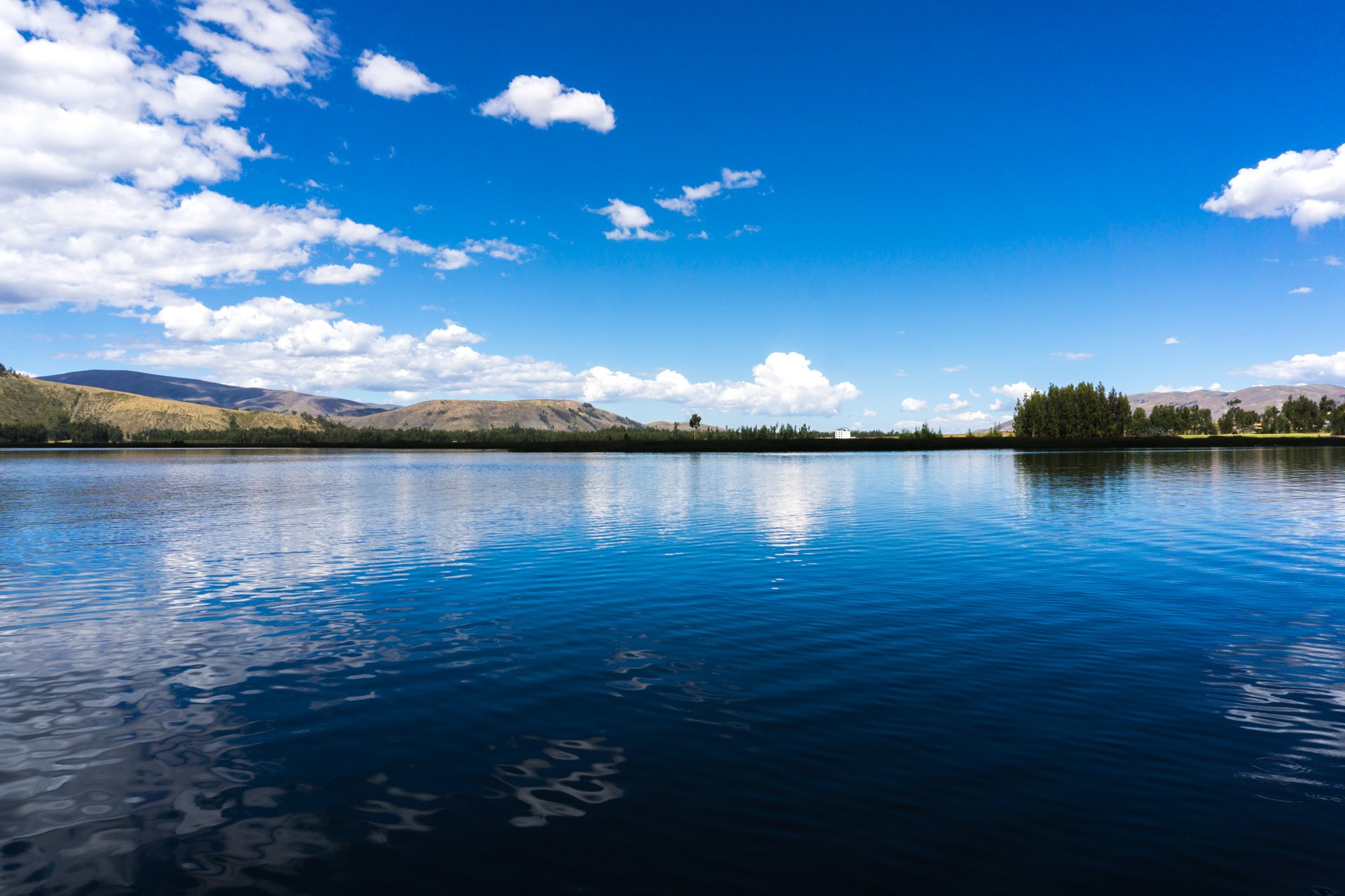 Taken from a motor-less boat.